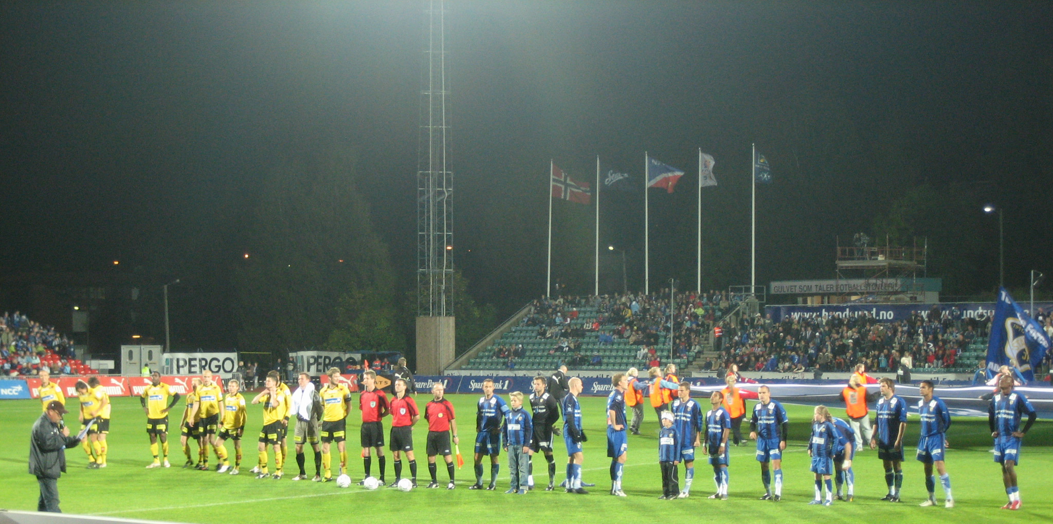 Match Stabæk IF - Lillestrøm SK; match day 21 in Tippeligaen season 2007